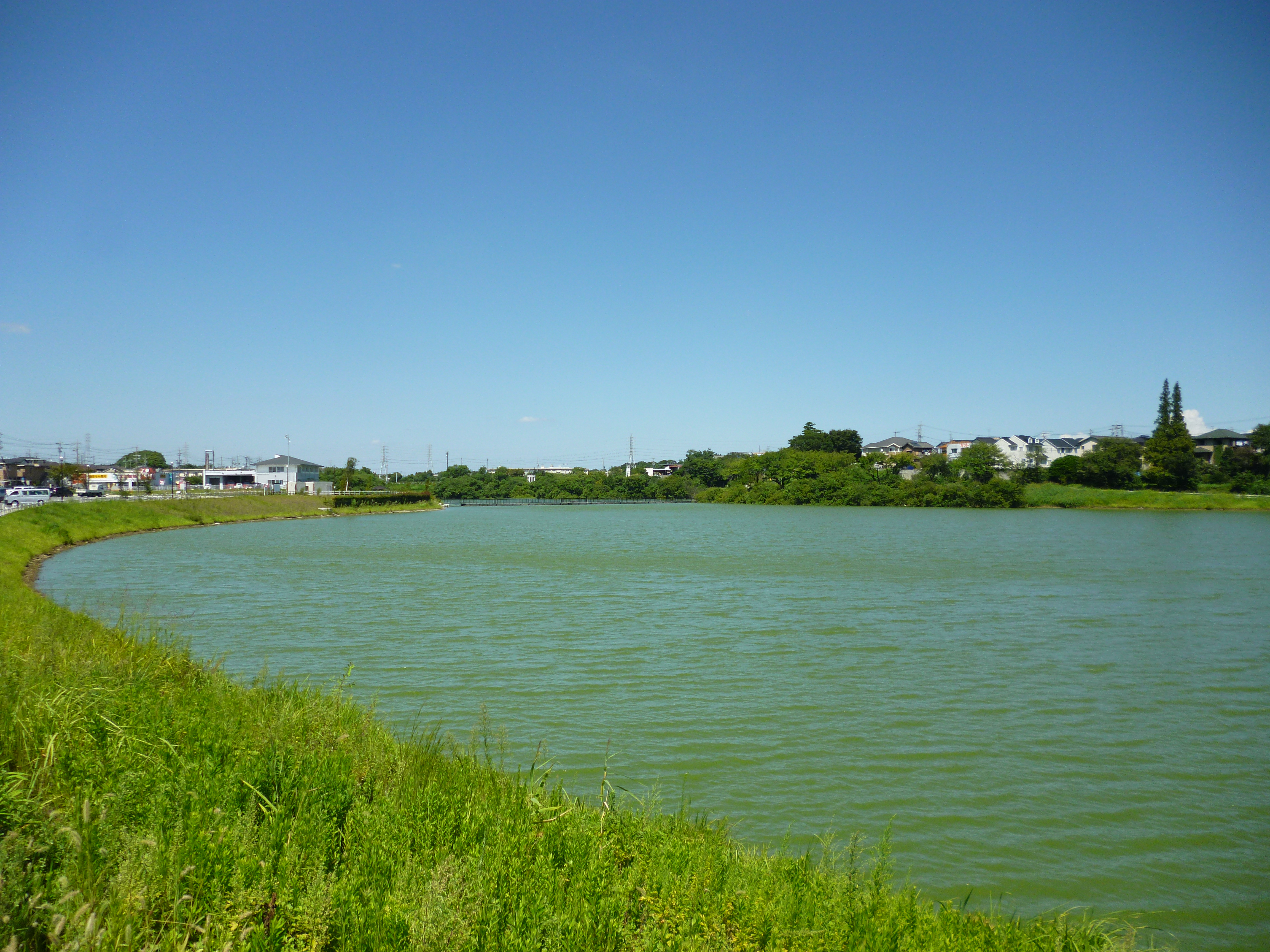 Lake Shichihongi in Handa, Aichi, Japan.